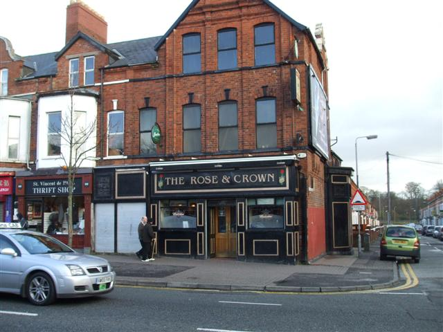 The Rose & Crown, Belfast It is located along Ormeau Road